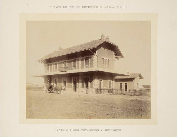 Batiment de voyageurs à Beyrouth